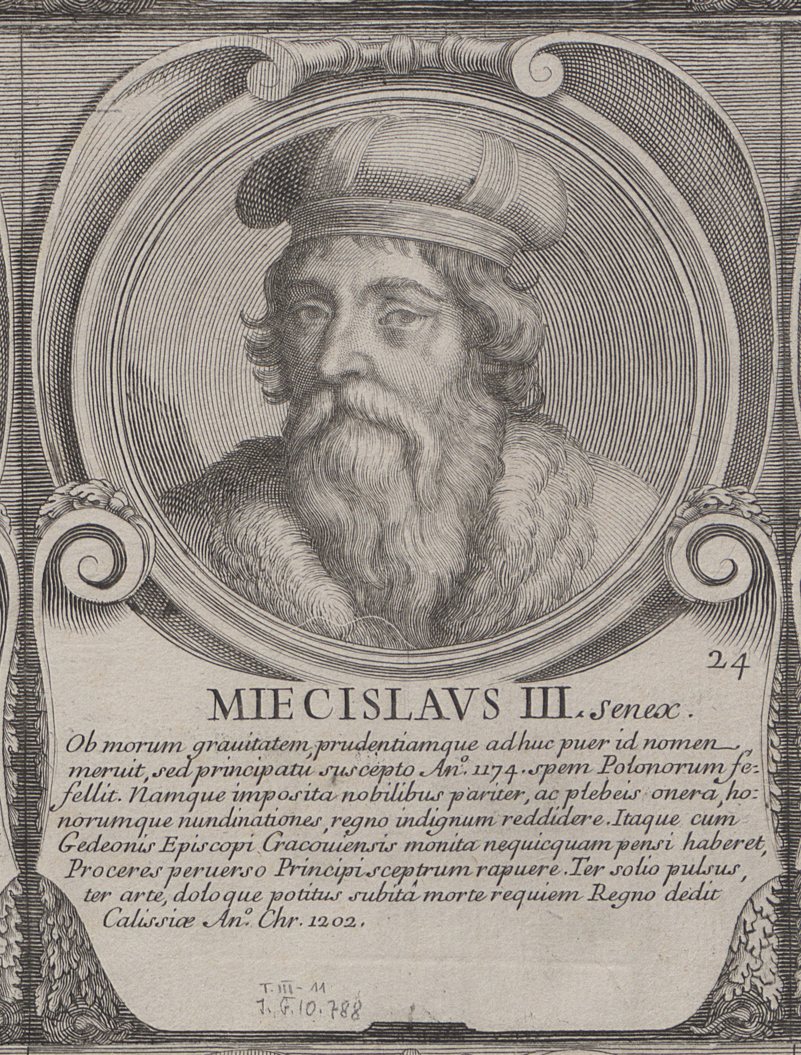 Duke Mieszko III of Poland